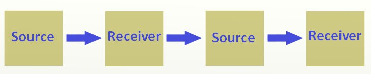 Simple Linear Communication Model